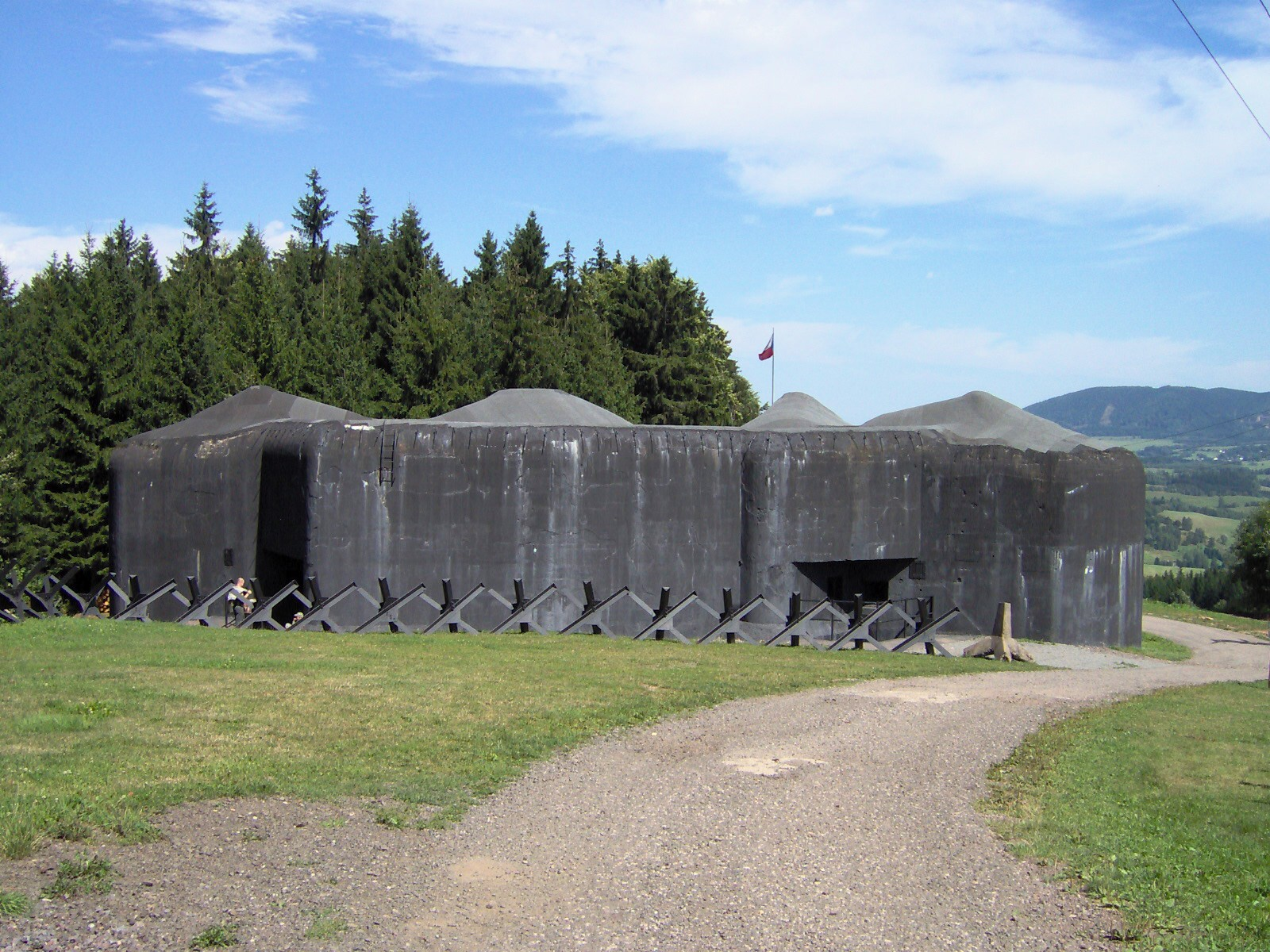 T-S 73 Polom infantry casemate, Stachelberg fortress, Trutnov District, Czech Republic